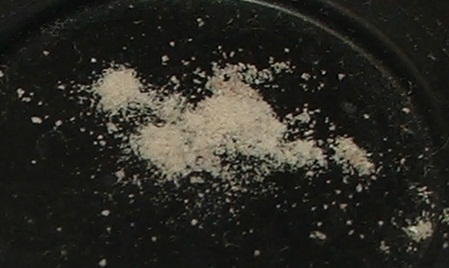 Antimony oxychloride powder. Pewter was dissolved in hydrochloric acid, leaving antimony and copper behind. A small chunk of pewter accidentally got into the antimony. The antimony was dissolved in a hydrochloric acid-hydrogen peroxide solution. This made antimony trichloride, copper(II) chloride, and some tin(II) chloride from the piece of pewter. It was reacted with sodium carbonate. As soon as a precipitate was seen, the sodium carbonate addition was stopped. The pH was rather acidic. The solution was filtered and the precipitate, which turned from a white-tan to a pale tan, was allowed to dry on filter paper. The dried precipitate was scraped onto a black lid where it was photographed.